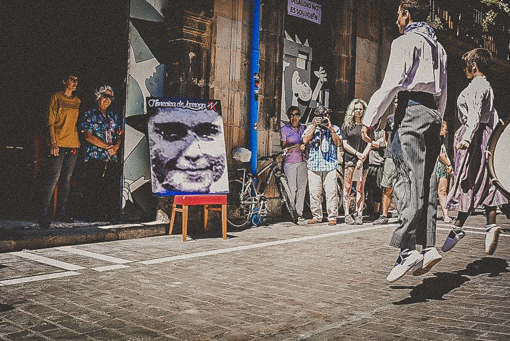 Youths paying homage to Maravillas Lamberto in Pamplona-Iruña, 2018